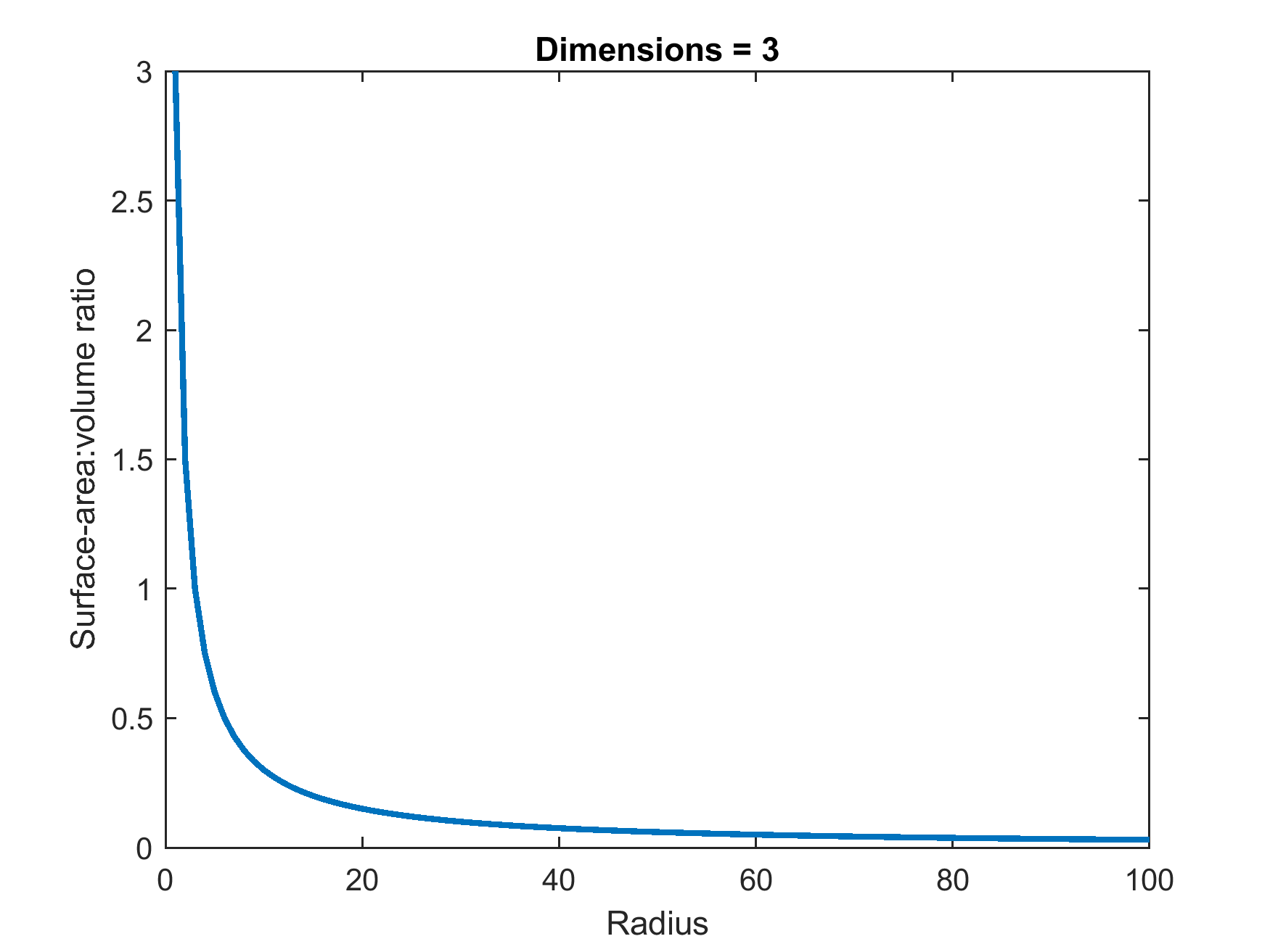 Plot of the surface-are:volume ratio (SA:V) for a 3-dimensional ball, showing the exponential decline as theradius of theball increases.